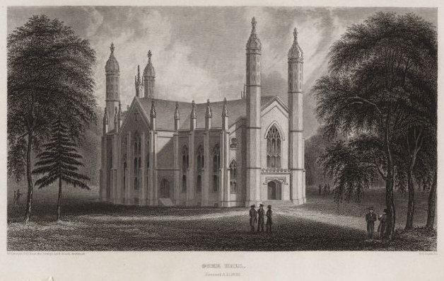 Gore Hall, Harvard University, Erected A.D. 1838. Smith, George Girdler (1795-1878), United States, engraver. On recto: " W. Croome, Del. from the Design by R. Bond, Architect", "G.G. Smith, Sc." / Image printed as frontispiece for volume 2 of History of Harvard University by Josiah Quincy, 1840. [1]